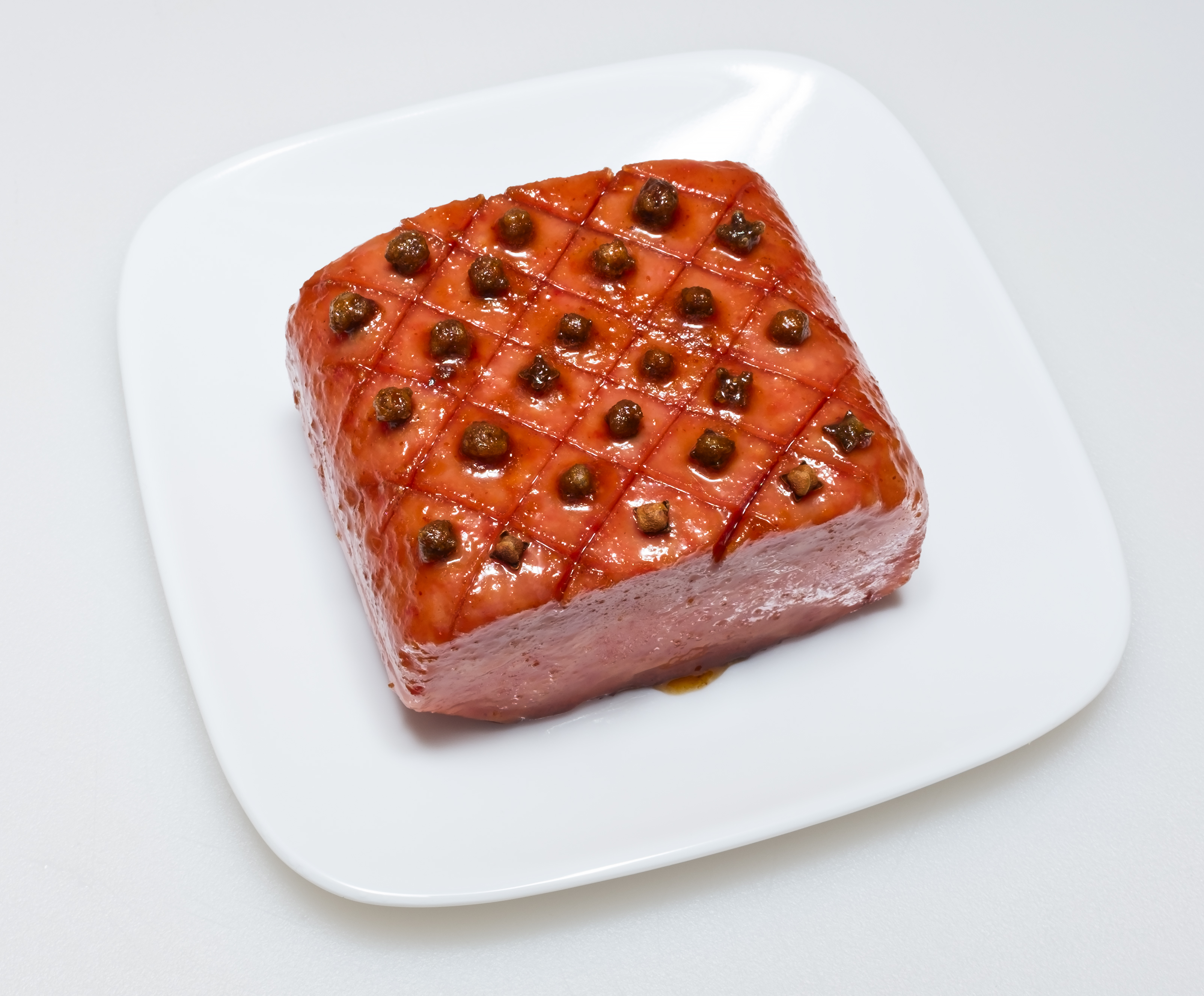 Baked Spam with Cloves. (½ tsp vinegar; 1 tsp water; ½ C brown sugar; 1 tsp mustard; score spam, put cloves on it, brush mix on spam, bake 15 min at 400F, basting every 5 min)